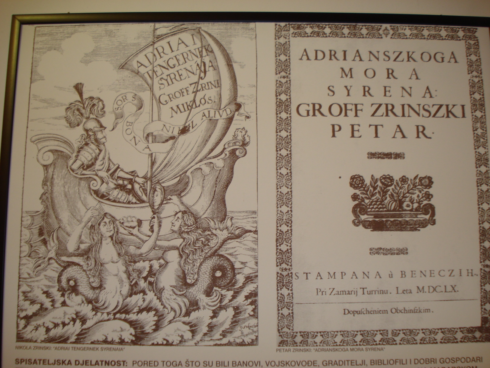 "The Siren of the Adriatic Sea", an epic written in Hungarian language by the Count Nikola Zrinski (1620-1664), Croatian statesman and poet, and translated to Croatian language by his brother Petar Zrinski, published in Venice in 1660Hrvatski: "Adrianskoga mora sirena", ep grofa Nikole Zrinskog Čakovečkog (1620-1664), hrvatskog bana i pjesnika, pisan na mađarskom jeziku, kojeg je na hrvatski preveo njegov brat Petar Zrinski, izdano u Mlecima 1660.